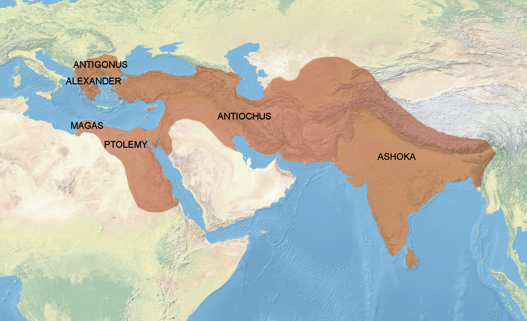 Territories conquered by the Dharma according to Ashoka (Major Edict 13). Natural Earth. Free vector and raster map data @ Political boundaries derived from File:Diadoch.png. (in English) (2014) The Land of the Elephant Kings, Harvard University Press, p. 57 ISBN: 9780674728820.